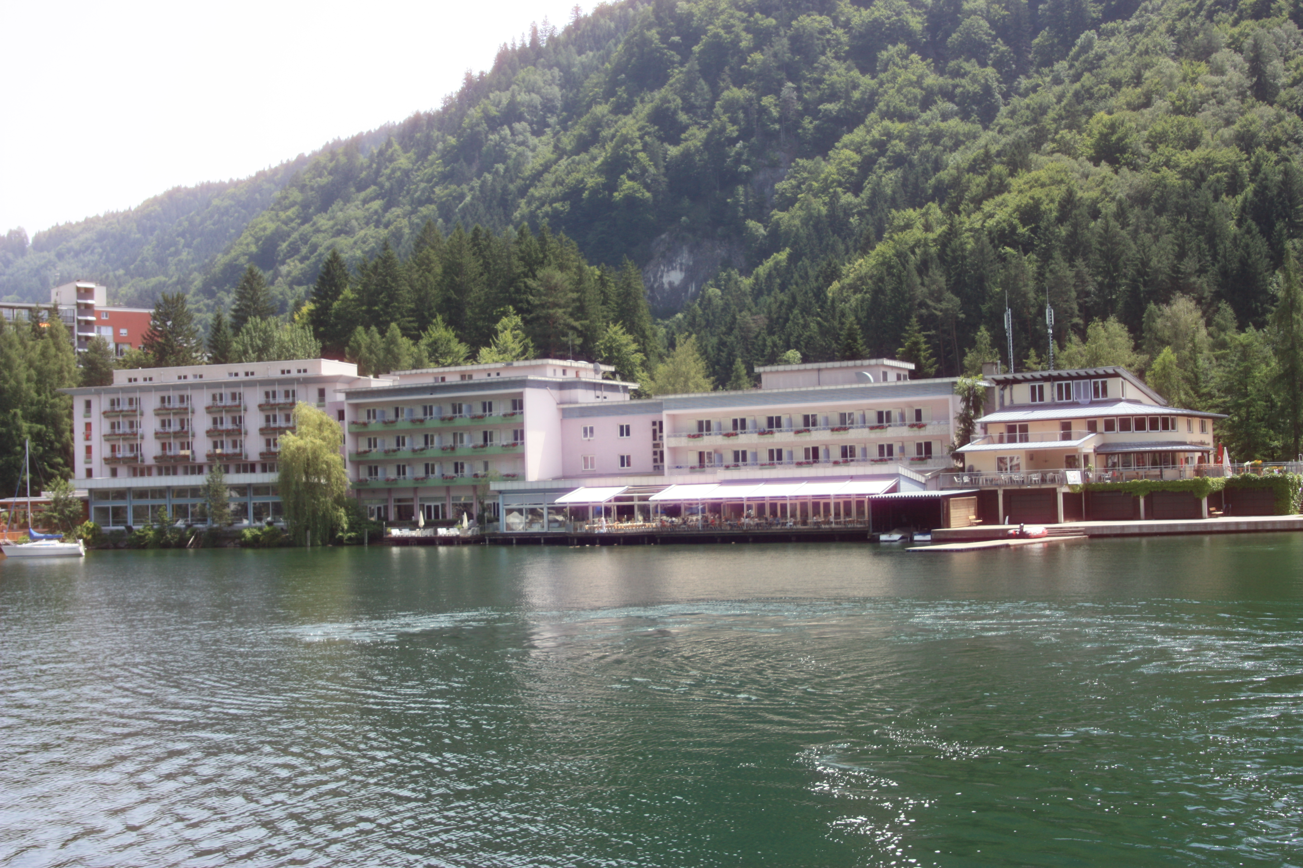 Robinson Club Landskron Locality:Sankt Andrä Community:Villach District:Villach State:Carinthia Country:Austria